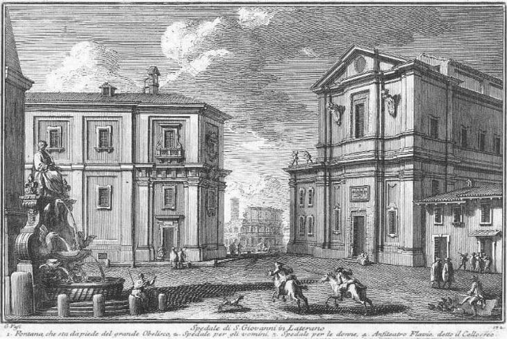 1) Fountain near the Obelisk; 2) Hospital (Men's Ward); 3) Hospital (Women's Ward); 4) Anfiteatro Flavio (Colosseo).